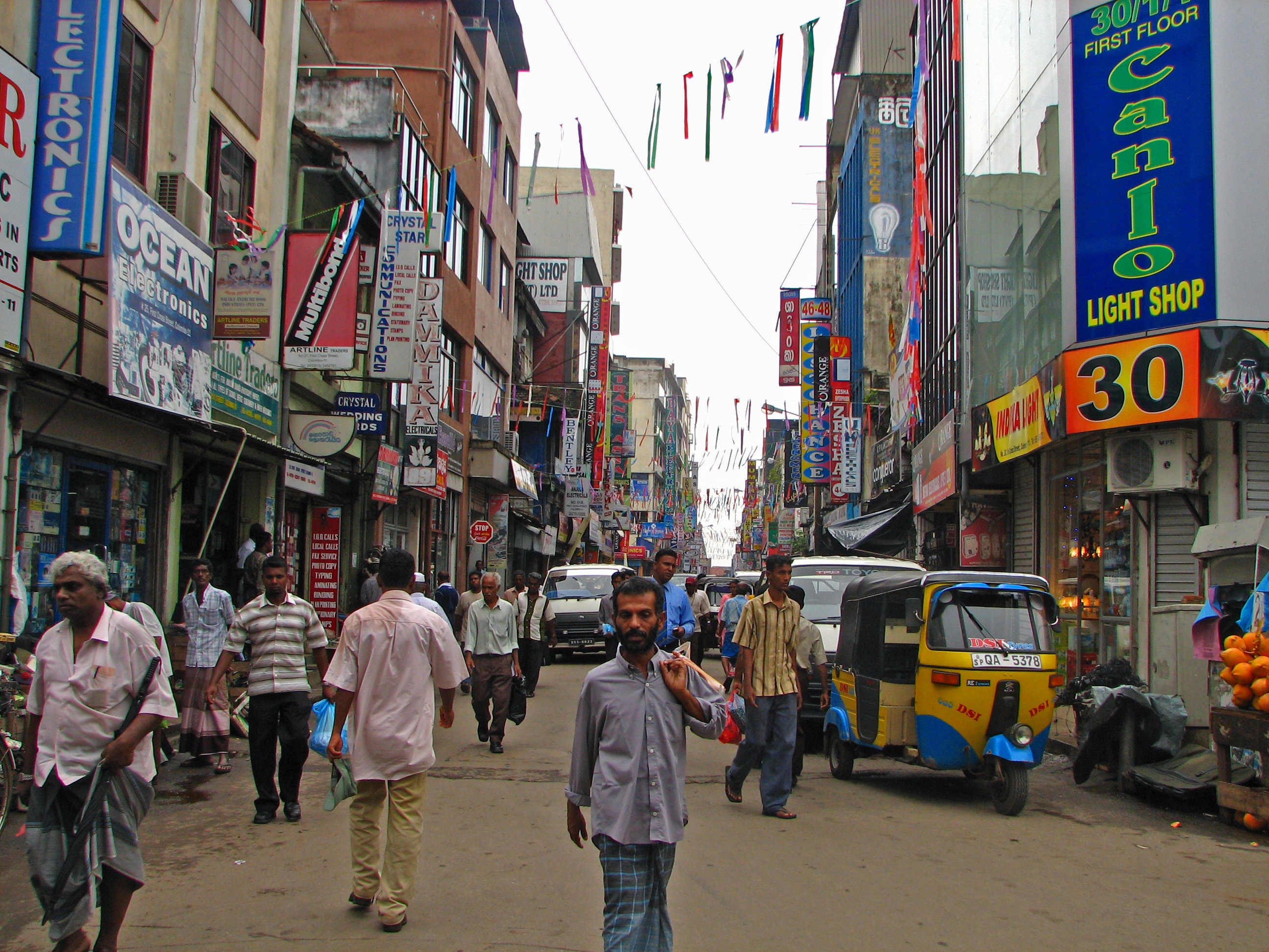 One of the market street in Pettah, between the Fort Station and the port harbour area. Definitely not a tourist area, I wandered up this street selling mostly electrical supplies down to the fish market, then back up a parallel one selling all textiles, before connecting back to here via plastic flower and do-dad street. I really love market areas.